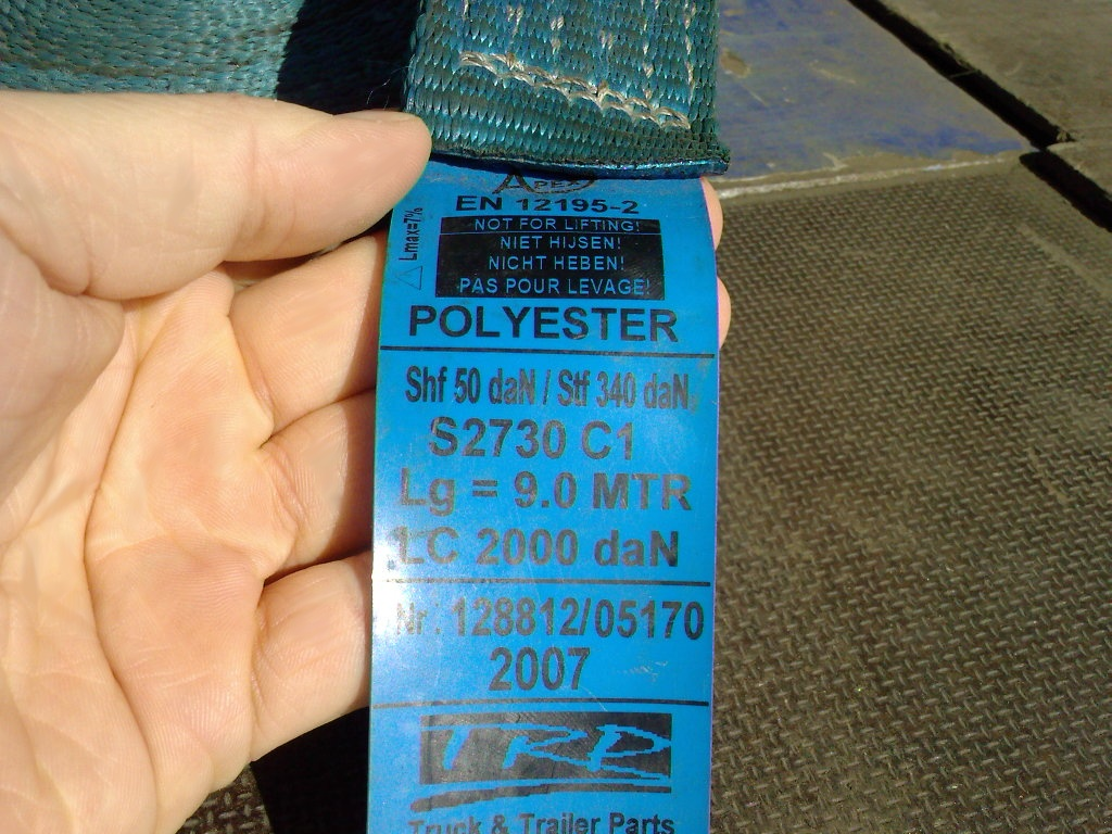 Label of a lashing strap